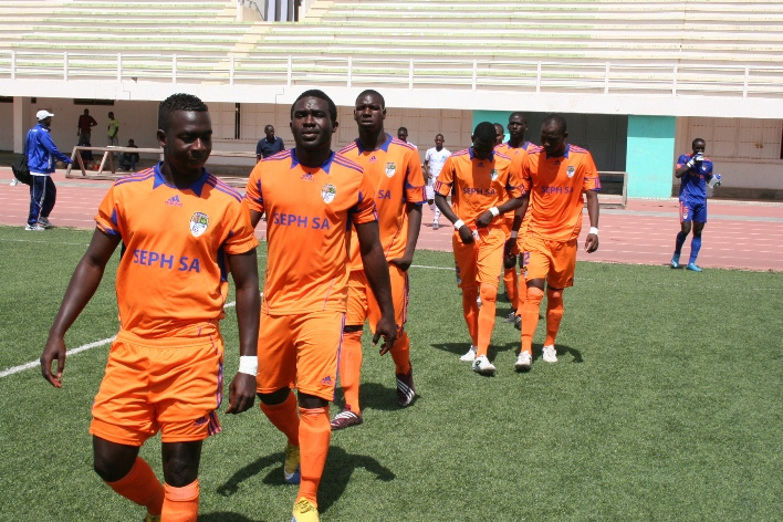 [Mohamed Foily] Mauritania's FC Nouadhibou remain atop the league leader board after their latest win over ASC Ksar.